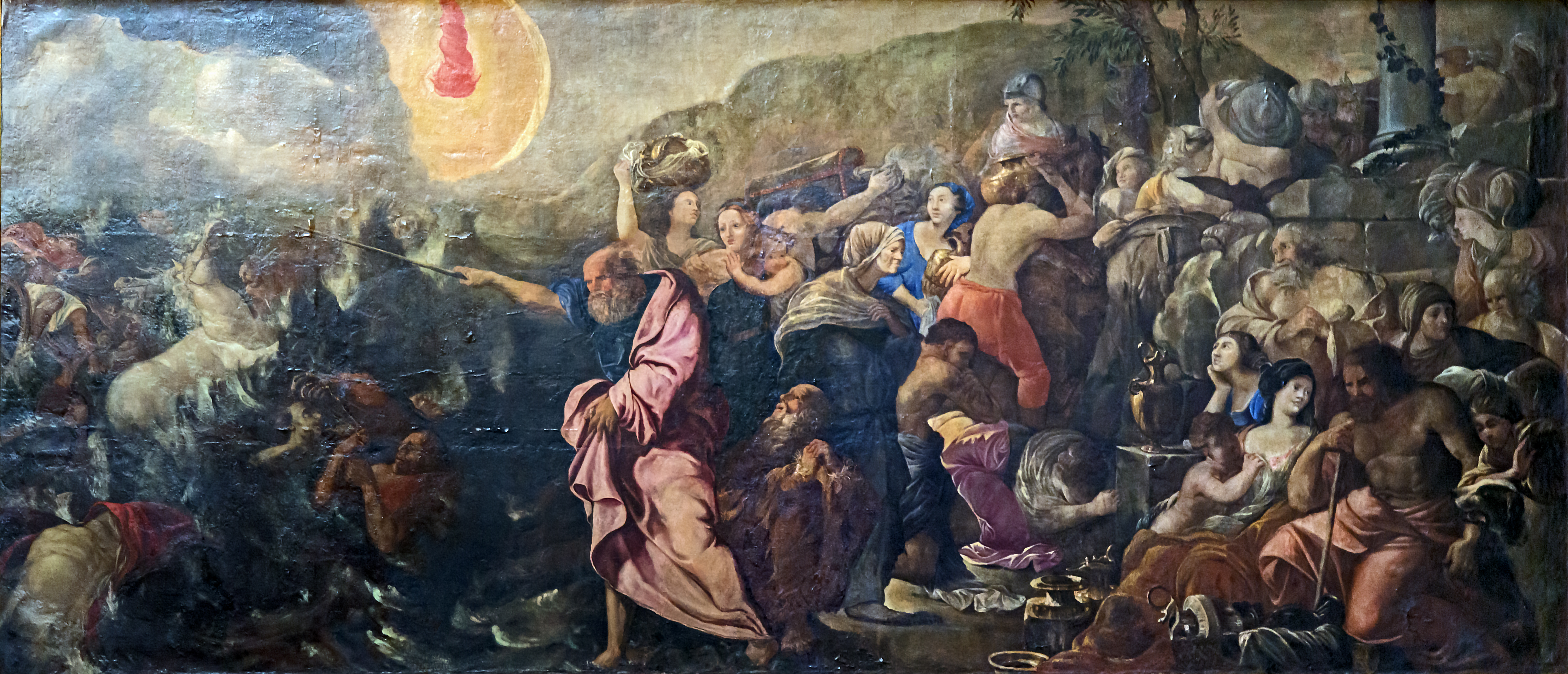 "Crossing of Red Sea", St Stephen's Cathedral of Toulouse. Oil on canvas of the seventeenth century; h = 275 ; l = 775 cm.